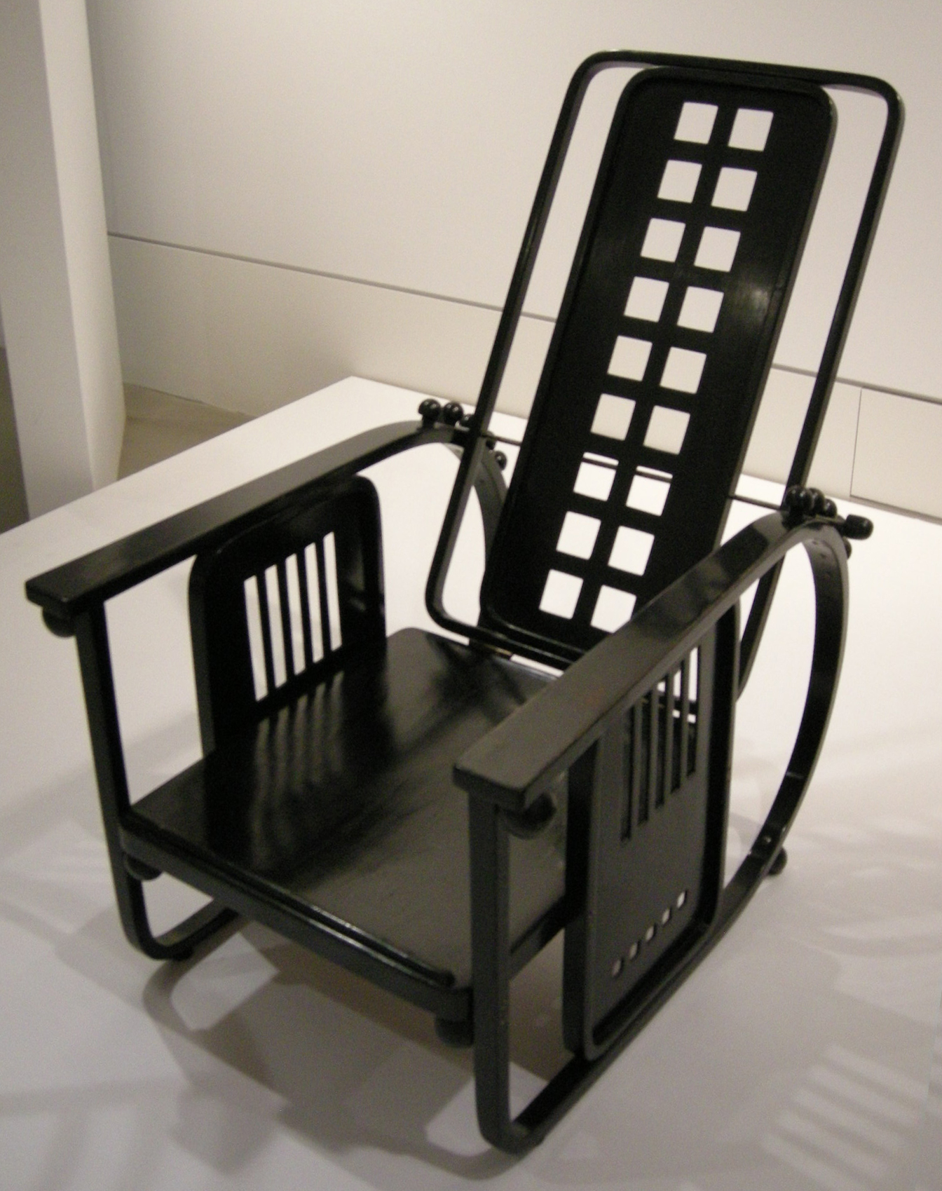 Sitzmachine adjustable-back chair. Design by Josef Hoffmann, created by Jacob & Josef Kohn in 1905. National Gallery of Victoria, Design section.